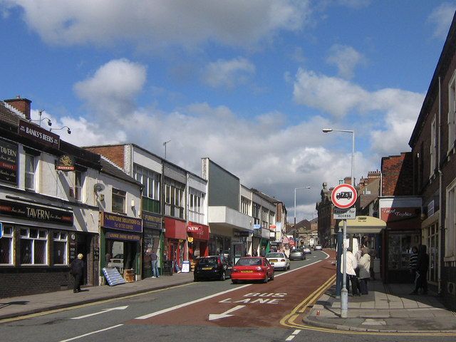 Tunstall High Street A rather run down shopping street, not helped by a large ASDA and Matalan, with their own parking, just to the east.